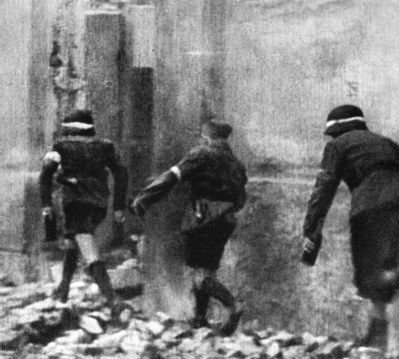 Scene from a movie Zakazane Piosenki (Forbidden Songs) shot in 1946 in ruined Warsaw. This scene depicts Warsaw Uprising and is sometimes mistaken for a real photo from the uprising.